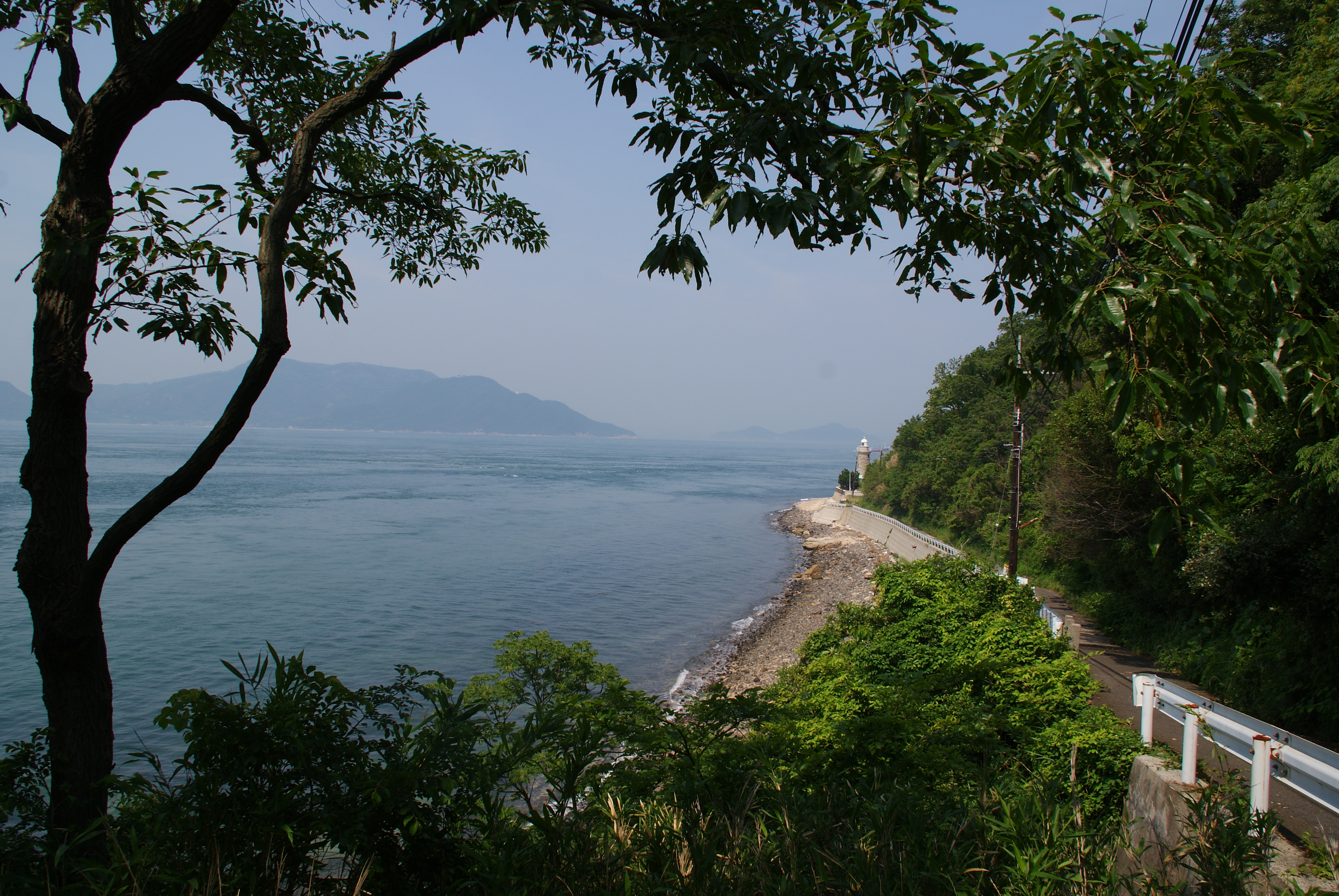 beach and pass way in Ogi island